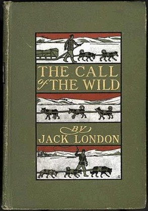 First edition cover of The Call of the Wild, New York, Macmillan Company, 1903